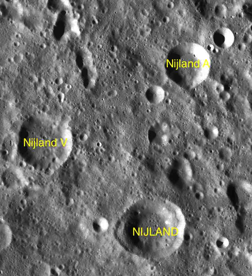 Part of the chart LAC-31 used for the presentation